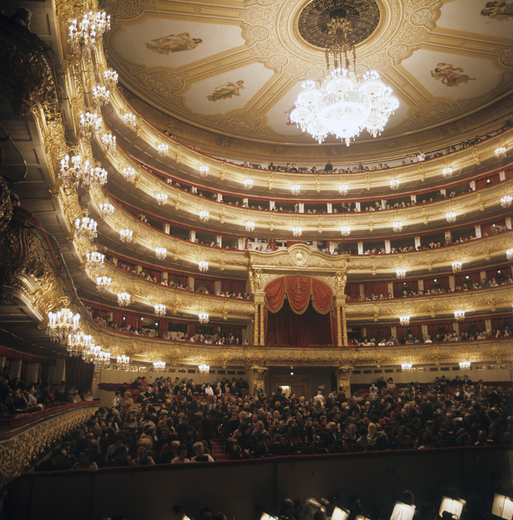 “Bolshoi Theater”. State Order of Lenin Academic Bolshoi Theater of USSR.